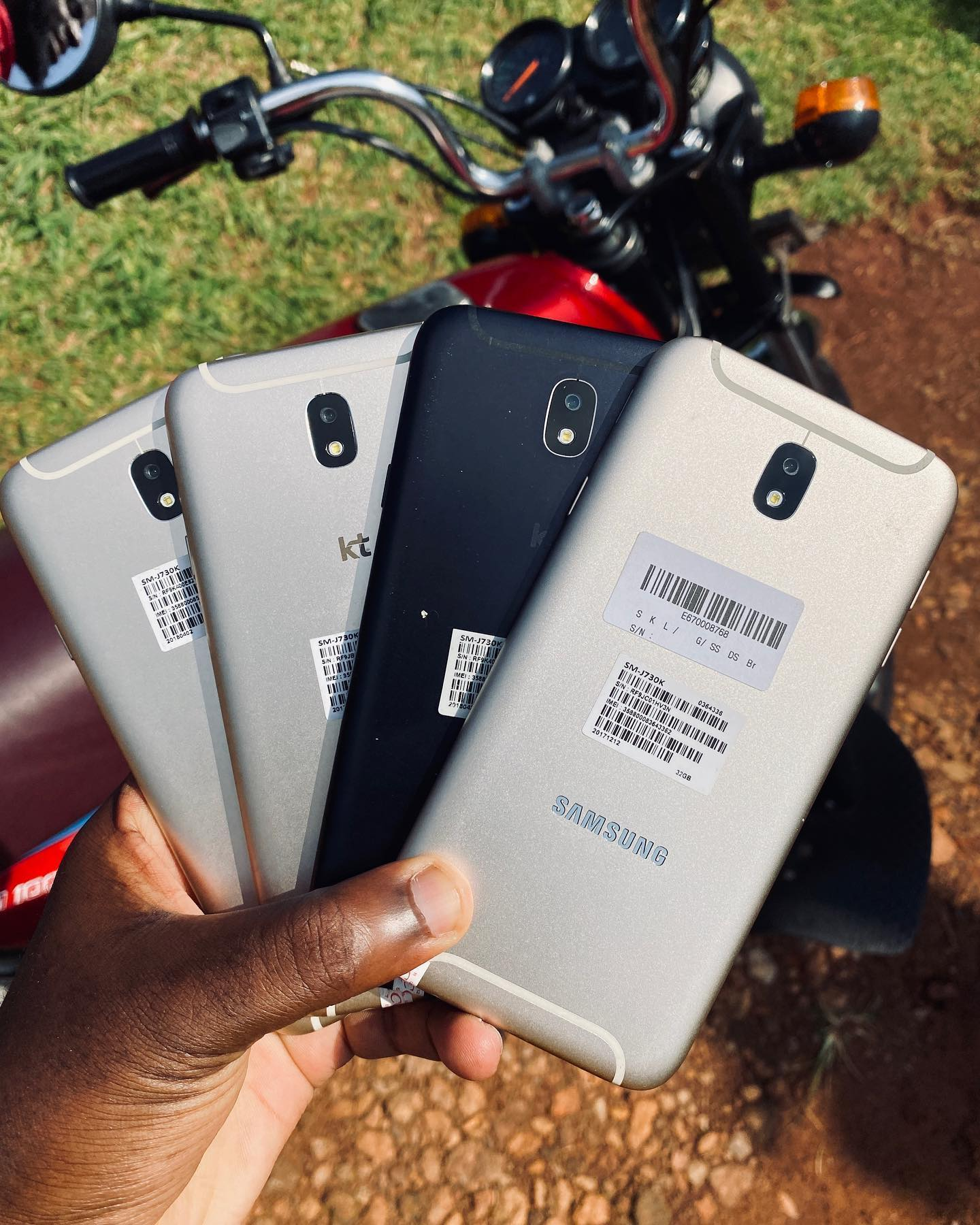 Samsung Galaxy J7 (2017) (also known as Galaxy J7 Pro) is an Android-based smartphone produced, released and marketed by Samsung Electronics. It was unveiled and released in July 2017 along with the Samsung Galaxy J3 (2017). It is the successor to the Samsung Galaxy J7 (2016).